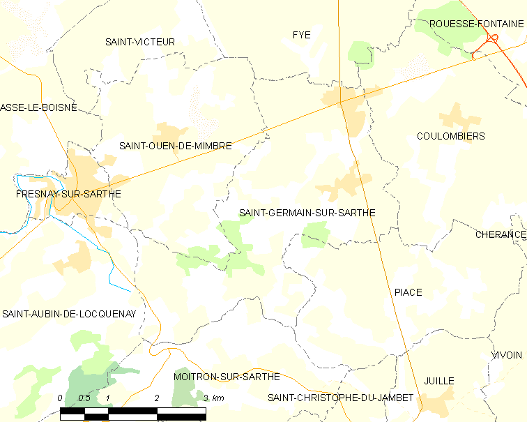 Map of French municipality